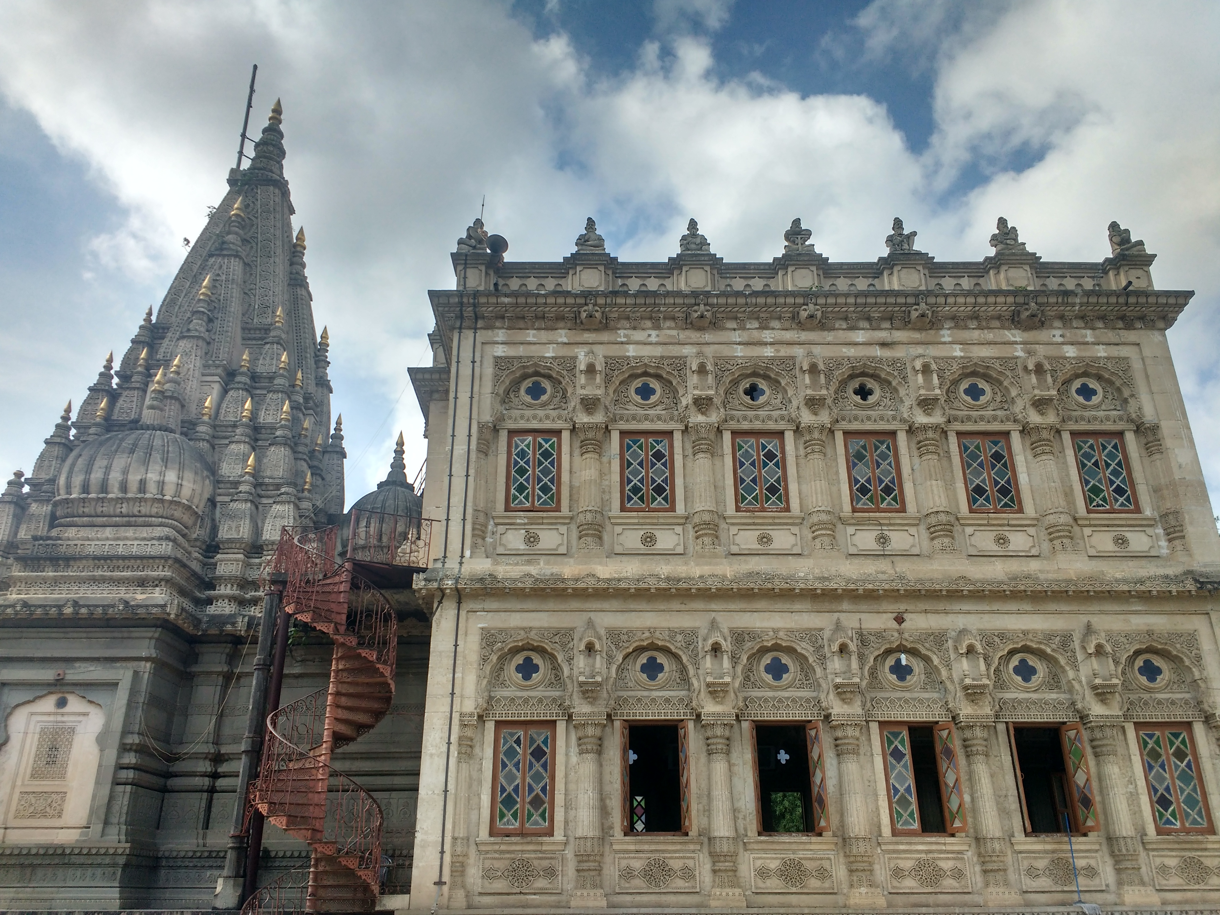 Shinde Chhatri located in Wanawadi, a well known place in Pune, India, is a memorial dedicated to the 18th century military leader Mahadji Shinde who served as the commander-in-chief of the Maratha army under the Peshwas from 1760 to 1780. It is one of the most significant landmarks in the city and is reminiscent of the Maratha rule.